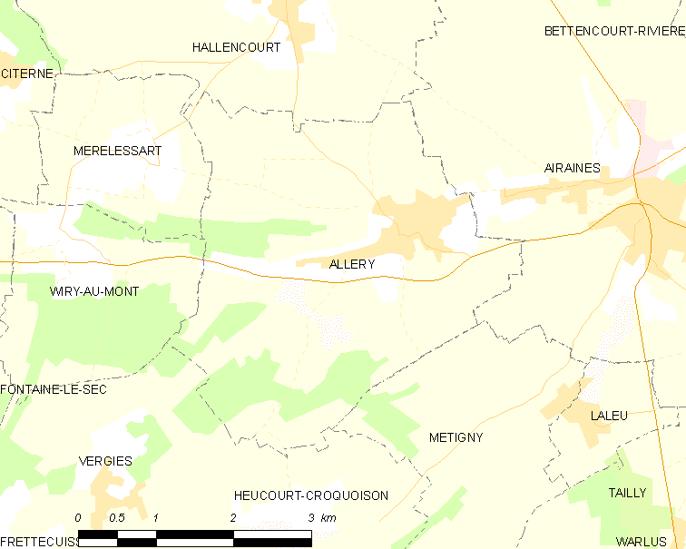 Map of French municipality Allery